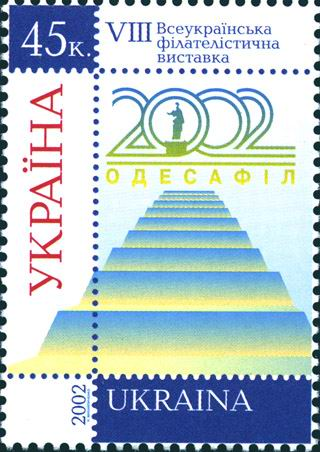 Stamp of Ukraine